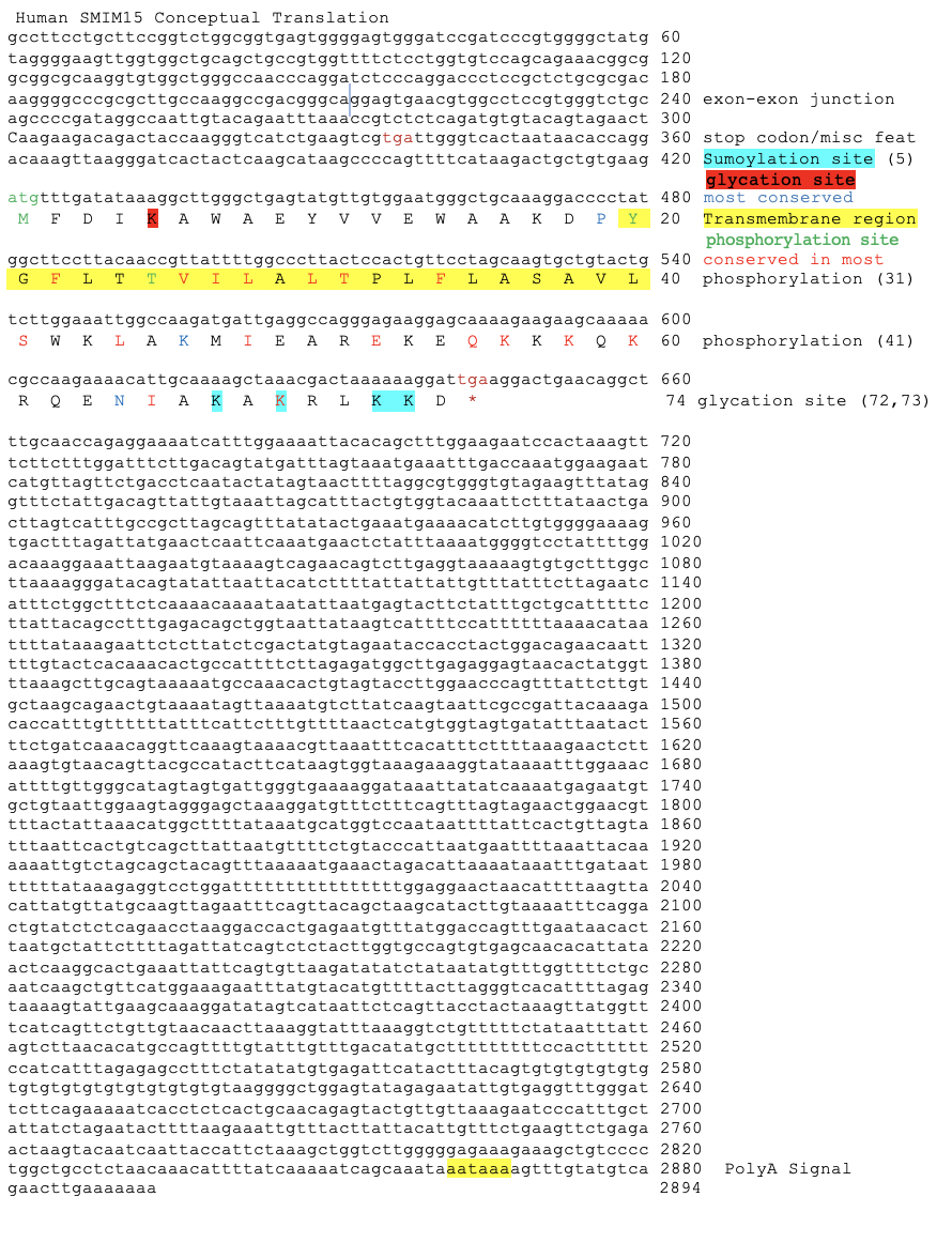 This is the conceptual translation of the human SMIM15 mRNA that includes the protein, post-translational modifications, and the transmembrane domain.